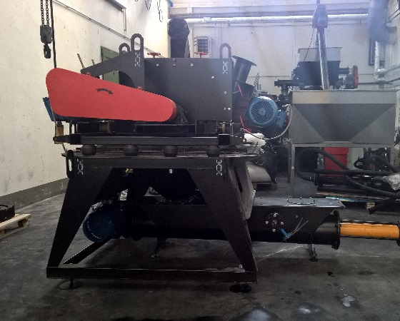 CWS production equipment based on hydroshock wet-milling device, Stockerau, Austria